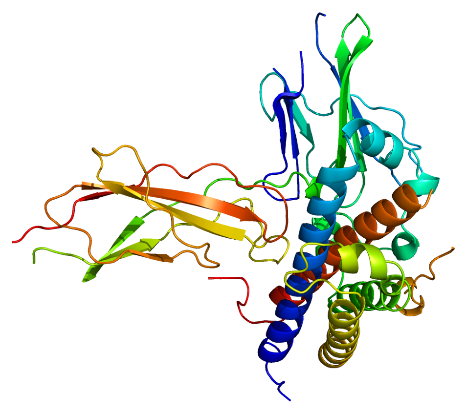 Structure of the GHR protein. Based on PyMOL rendering of PDB 1a22.